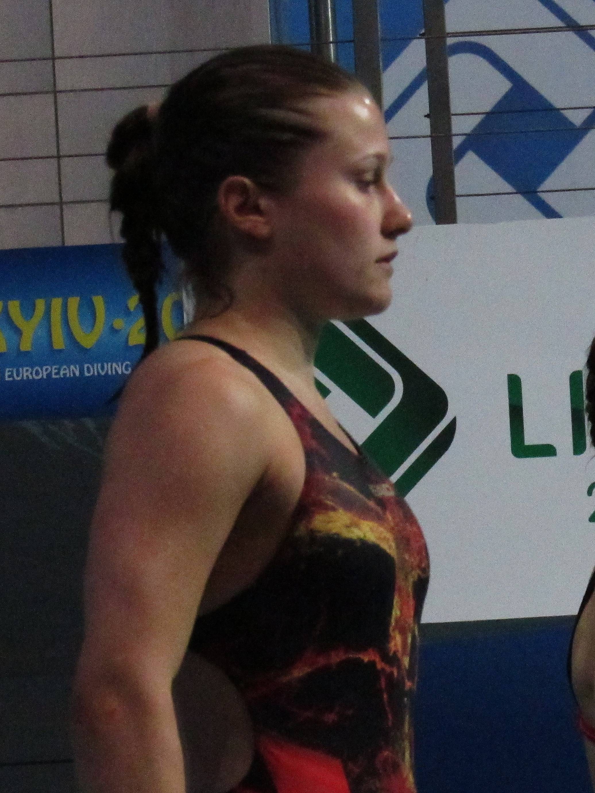 German diver Tina Punzel at the 2019 European Diving Championships in Kyiv.